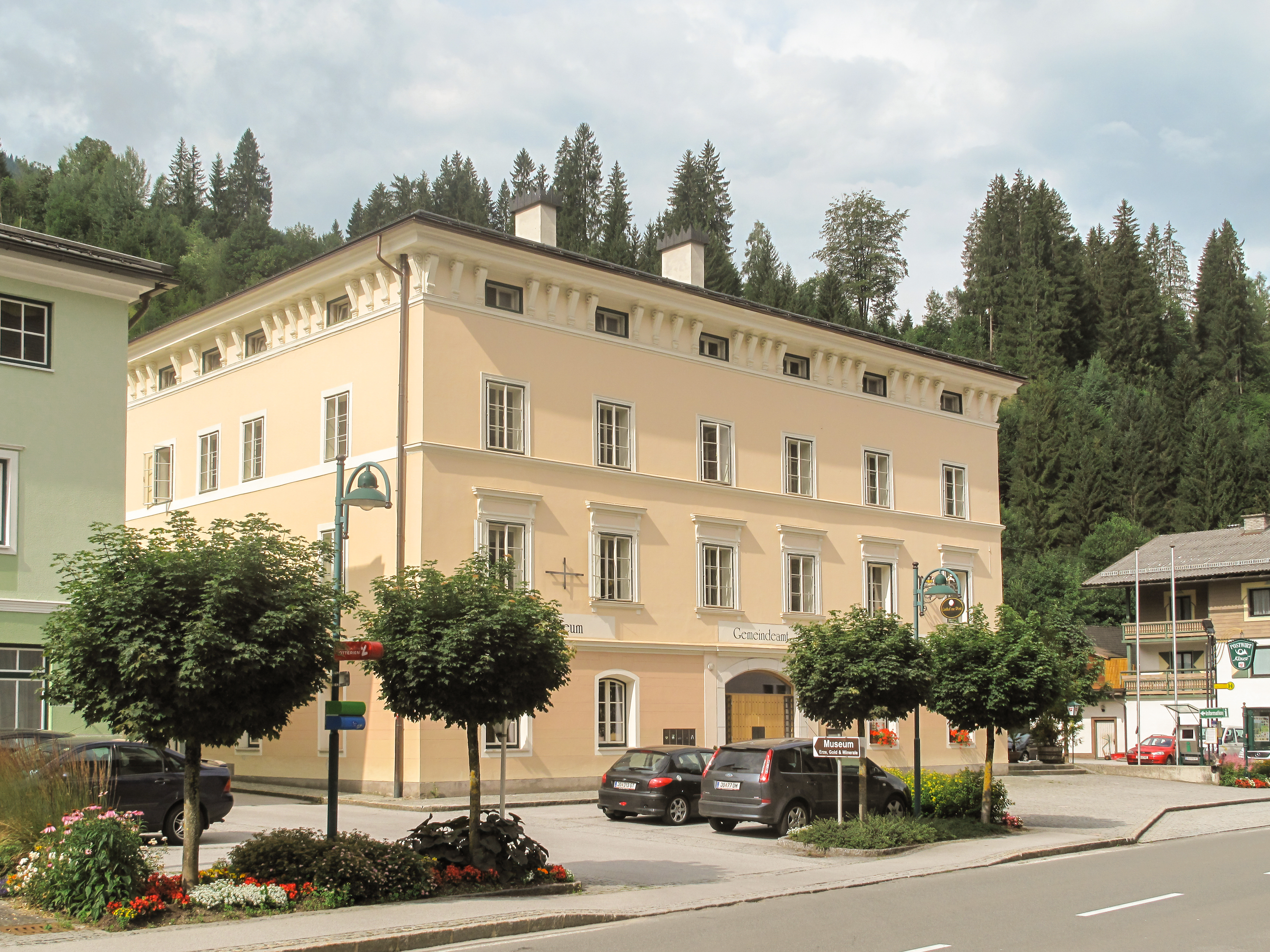 Hüttau, town hall